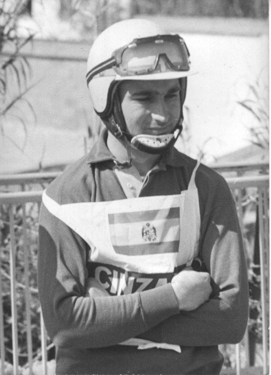 Pere Pi during an international Motocross race (around 1965)